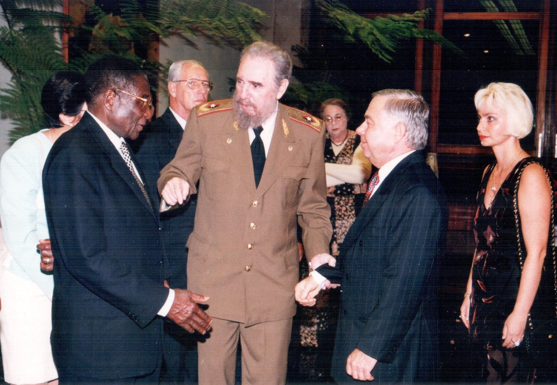 Yevhen Svynarchuk and Fidel Castro